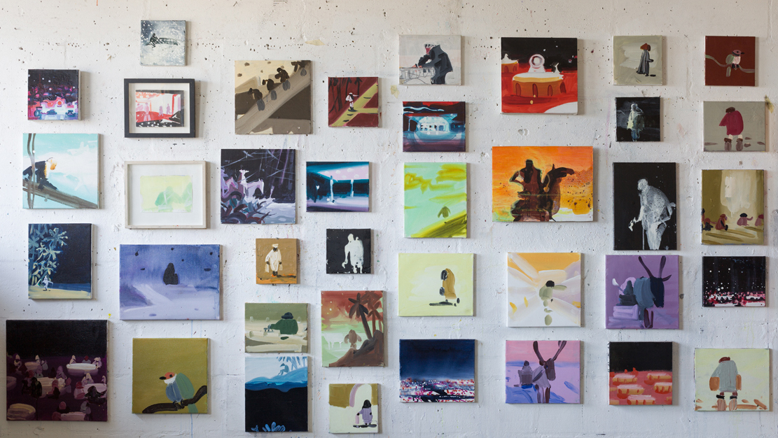 Susie Hamilton's studio, London, May 2016